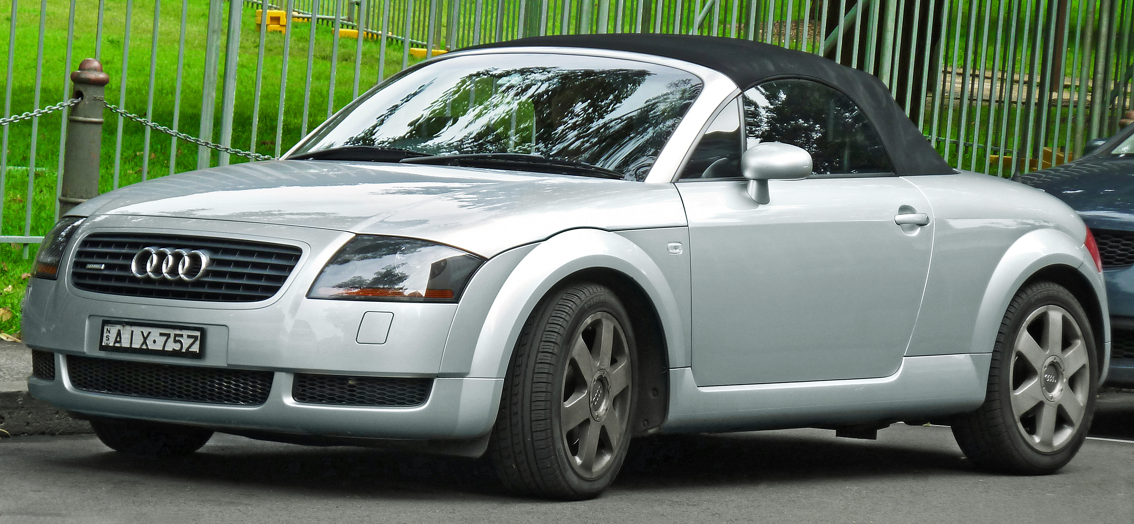 2000 Audi TT (8N) 1.8 T quattro roadster. Photographed in Sydney, New South Wales, Australia.